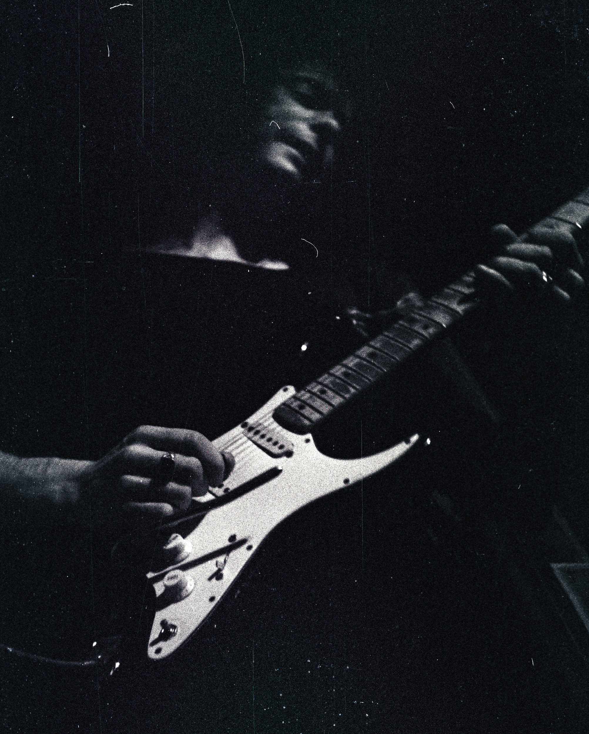 Deep Purple, December 1, 1970 Niedersachsenhalle, Hannover, Germany, The Touring Band 1970: Ian Gillan - Vocals, Ritchie Blackmore - Guitar, Jon Lord - Organ, Roger Glover - Bass Guitar, Ian Paice - Percussion